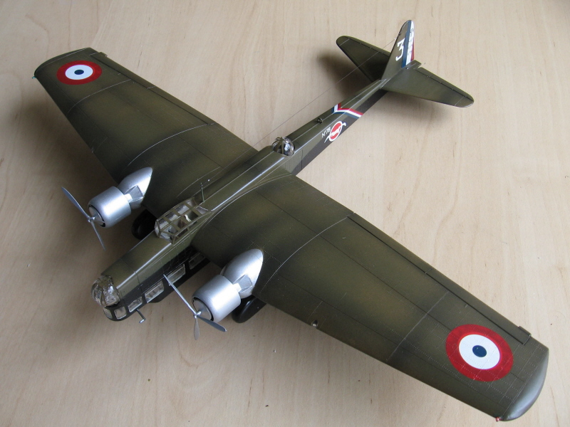 1/72 scale model from Směr kit